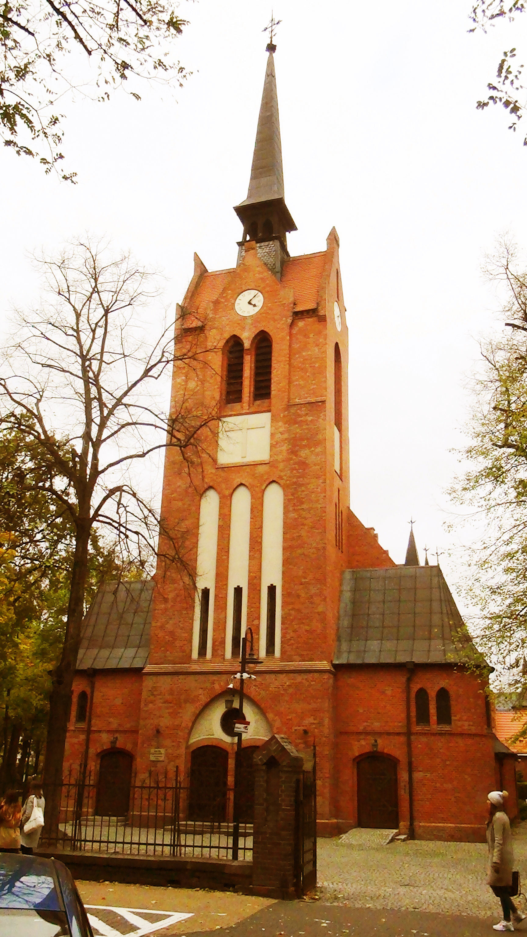 Garrison church of the Exaltation of the Holy Cross in Poznan, Poland, south elevation